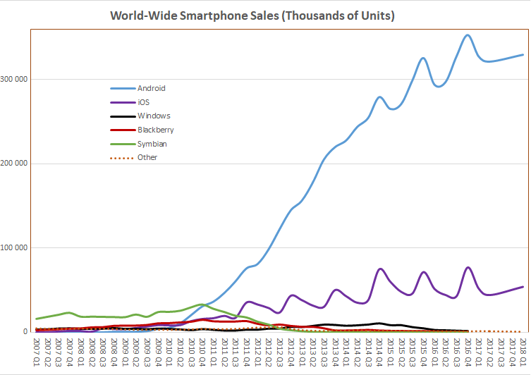 World-wide smartphone sales based on Gartner actuals